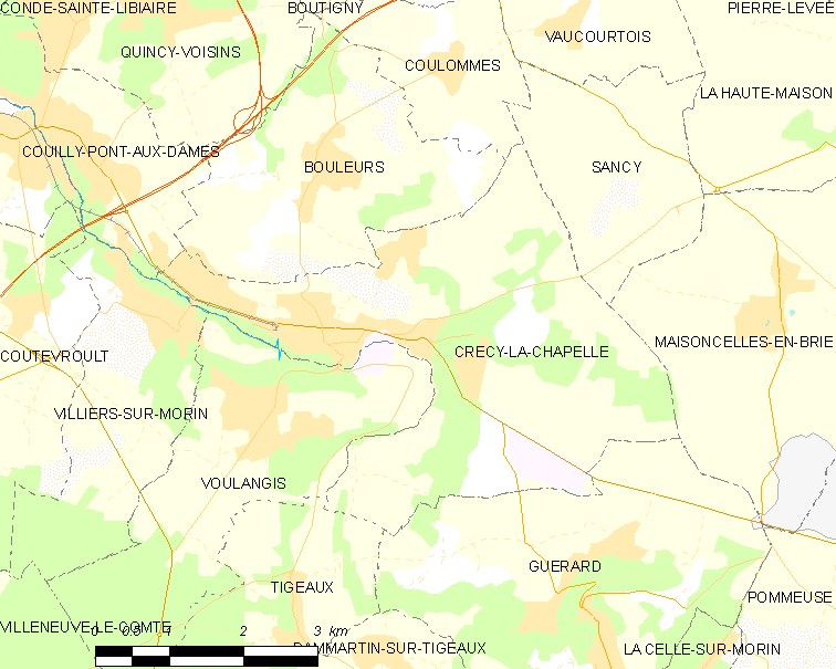 Map of French municipality Crécy-la-Chapelle